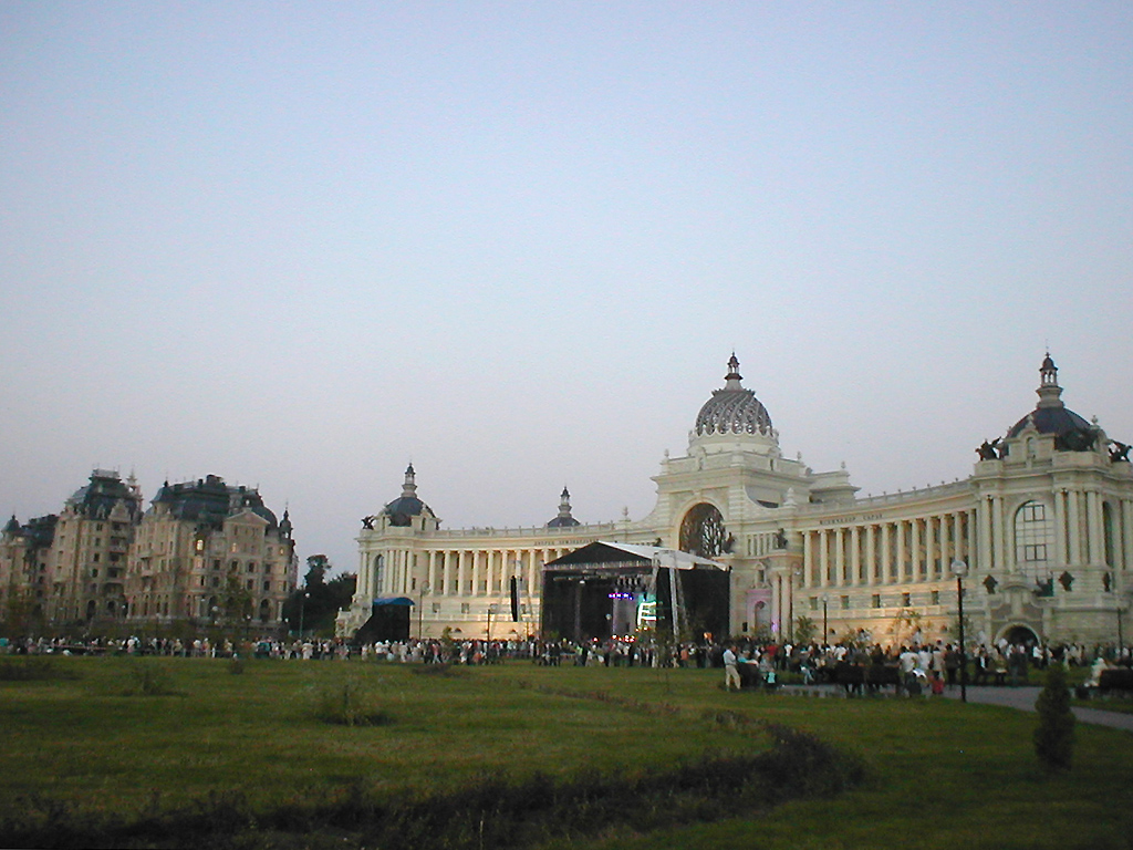 Palace square in Kazan, Kazan Autumn festival near Agriculturers palace